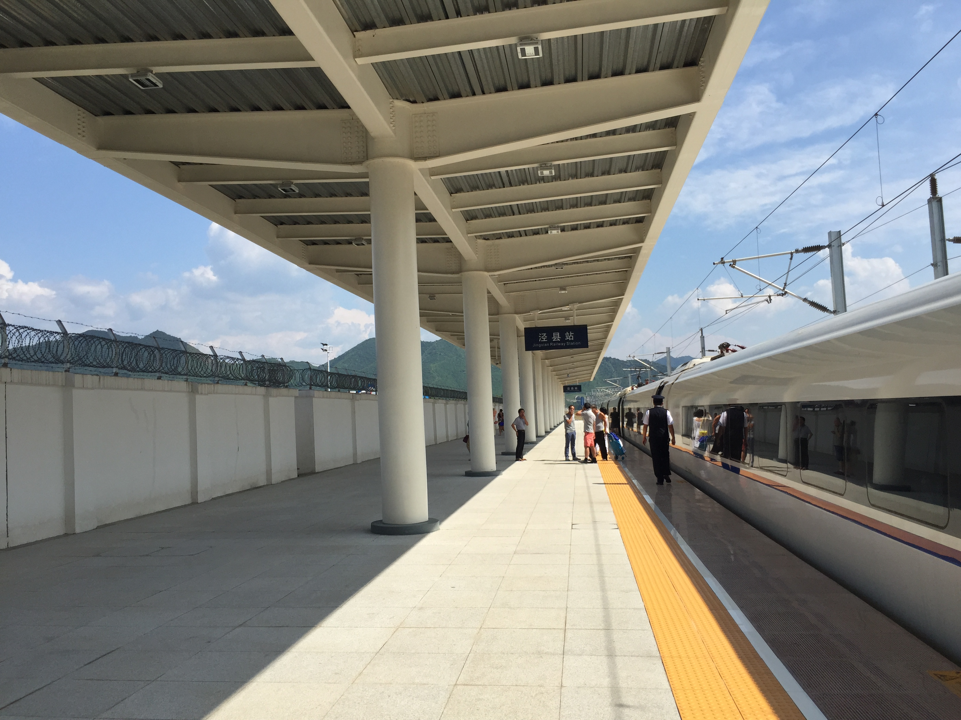 Nice clouds outside.